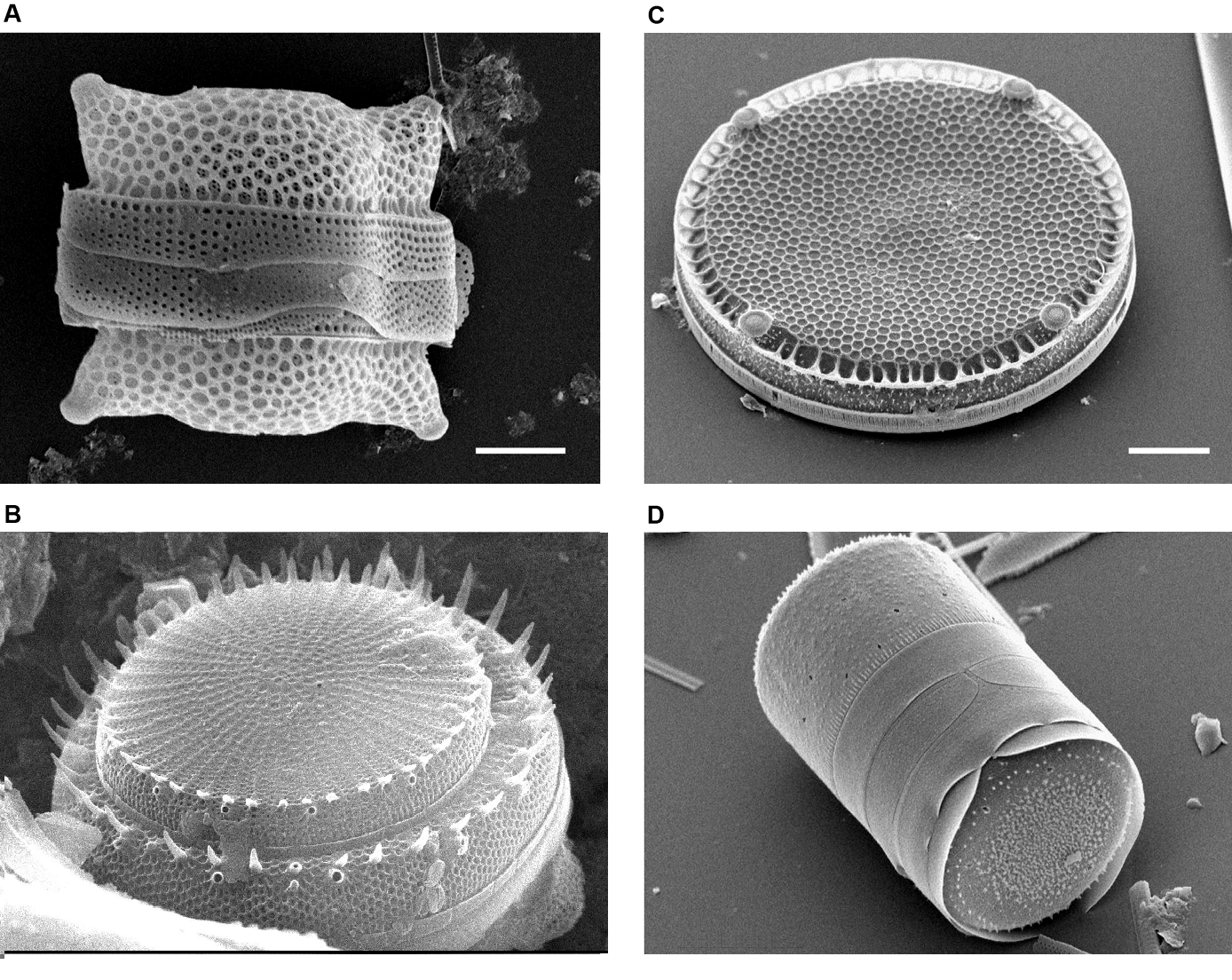 Coscinodiscophycidae: A. Biddulphia, B. Stephanodiscus, C. Eupodiscus, D. Melosira.